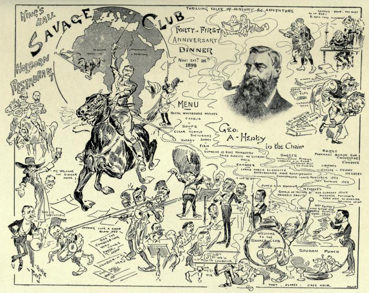 Artwork (menu for 1898 dinner in honour of Lord Kitchener at the Savage Club in London) credited in the caption to William Henry Pike (1846-1908). The artwork appears facing page 176 in 'The Savage Club : a medley of history, anecdote, and reminiscence' by Aaron Watson (1850-1909), published in 1907, in the UK by T. Fisher Unwin. The book is at the Internet Archive